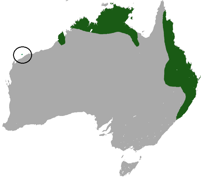 Common Planigale (Planigale maculata) range